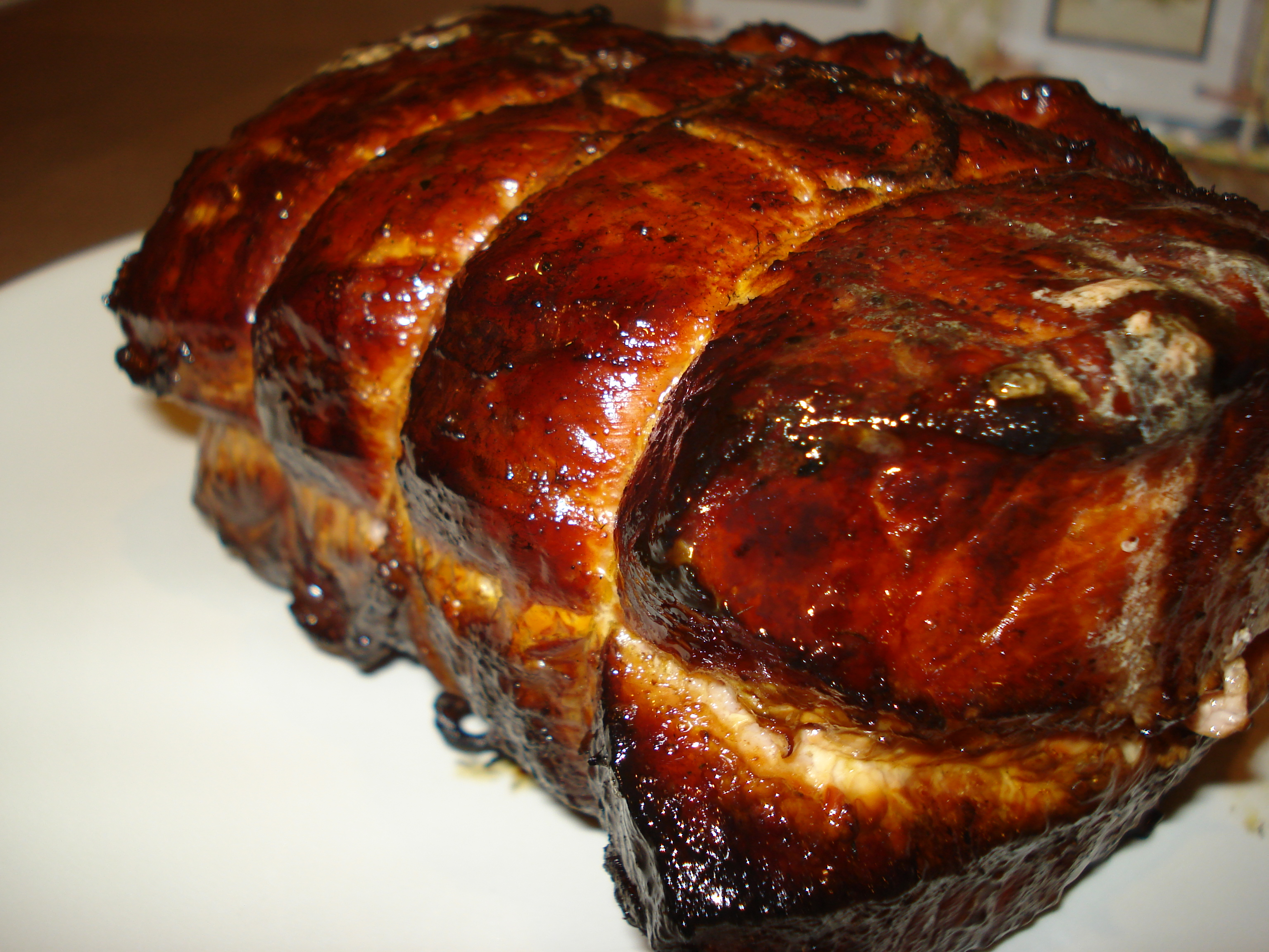 I smoked this roast in the new smoker for about 2 1/2 hours. I had opened it up I smoked this roast in the new smoker for about 2 1/2 hours. I had opened it up before starting to cook and put a few green onions in along with some garlic and olive oil. I tied it back together with butchers twine then covered it with a rub of salt, black pepper, and cayenne pepper. I smoked this roast in the new smoker for about 2 1/2 hours. I had opened it up before starting to cook and put a few green onions in along with some garlic and olive oil. I tied it back together with butchers twine then covered it with a rub of salt, black pepper, and cayenne pepper.